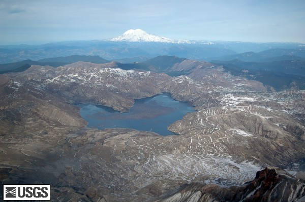 Aerial view, Mount Rainier as seen from the crater of Mount St. Helens. Spirit Lake is in the foreground.